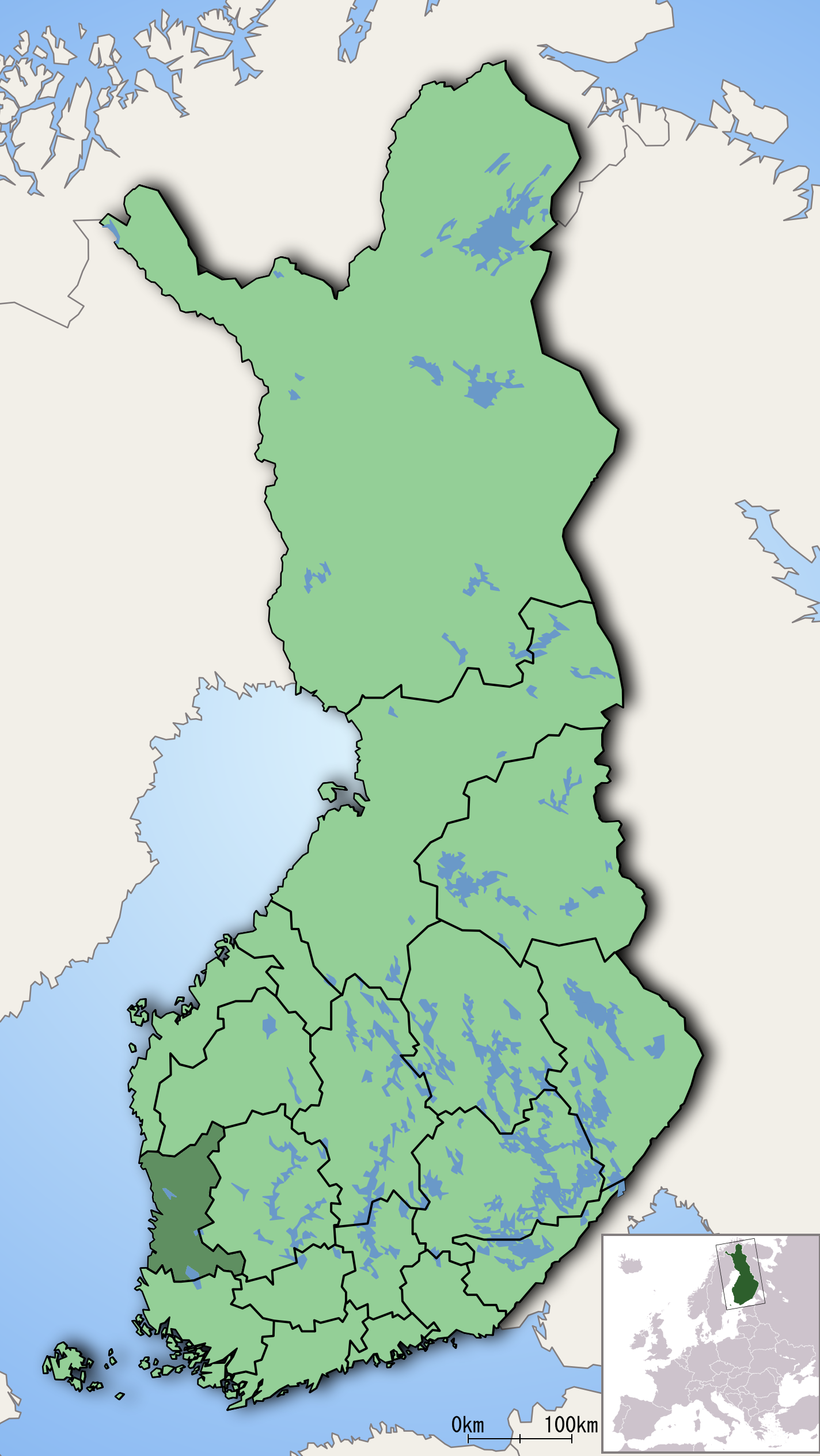 Finnish province of Satakunta.